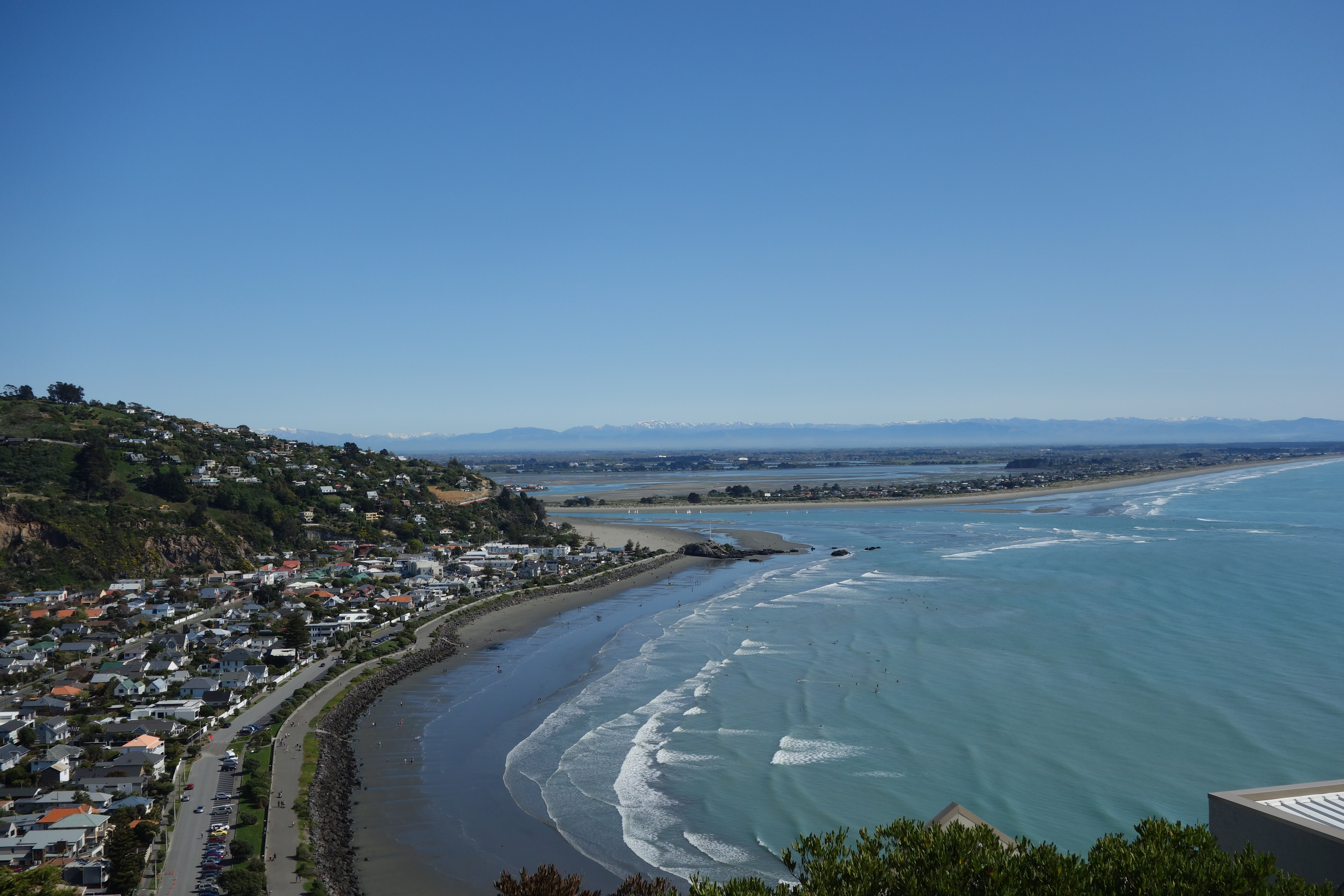 Sumner (left) and South Brighton from Scarborough Hill.